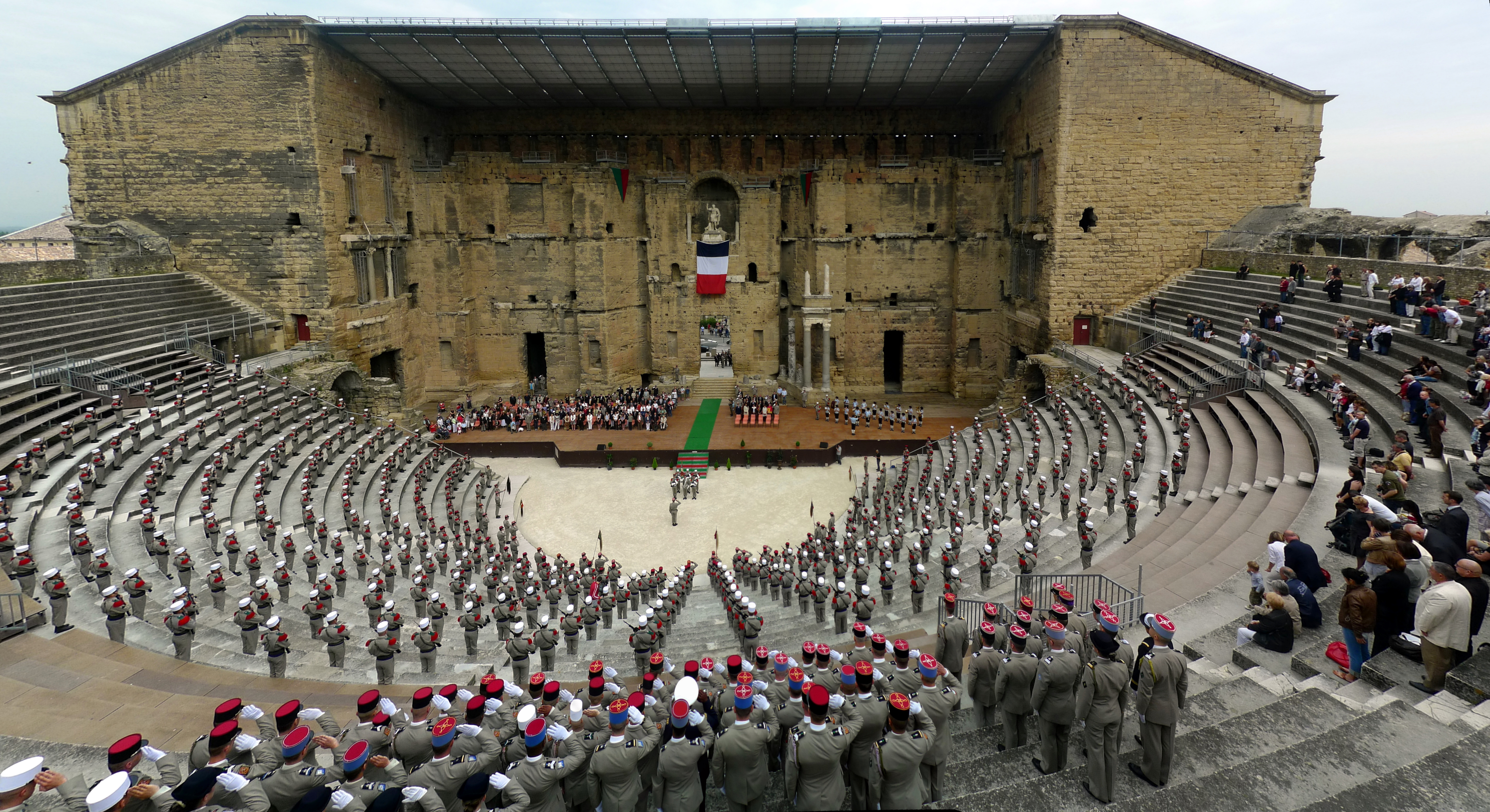 Event commemorating the Battle of Camaron in the ancient theater.